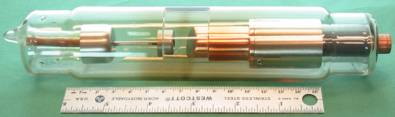 Fixed anode x-ray tube